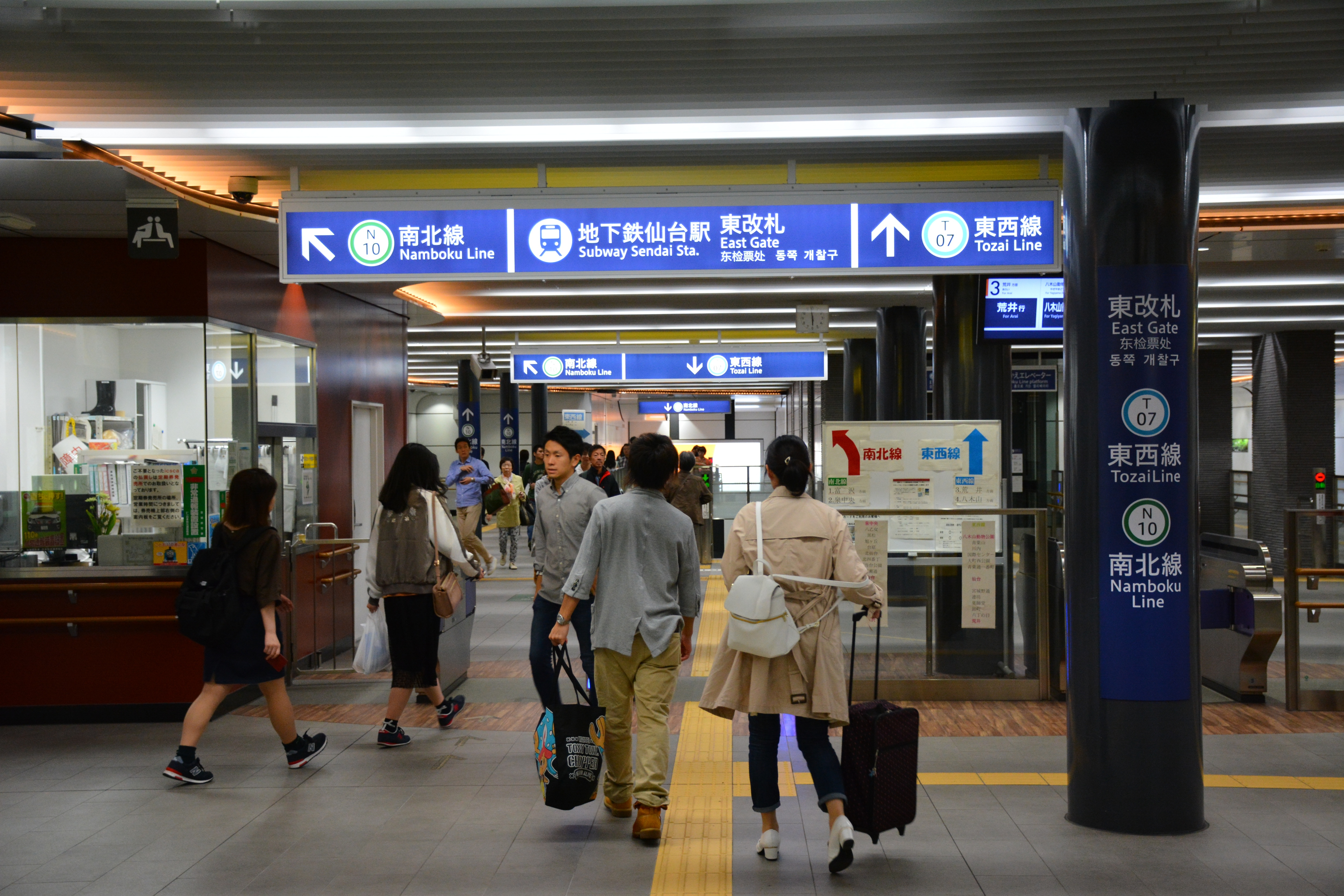 Sendai Station, October 2016